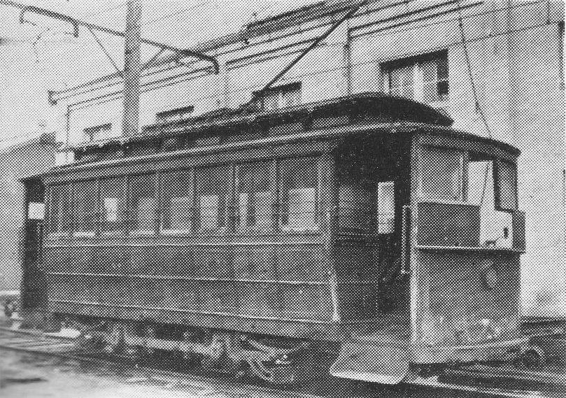 Hanshin Electric Railway #510.